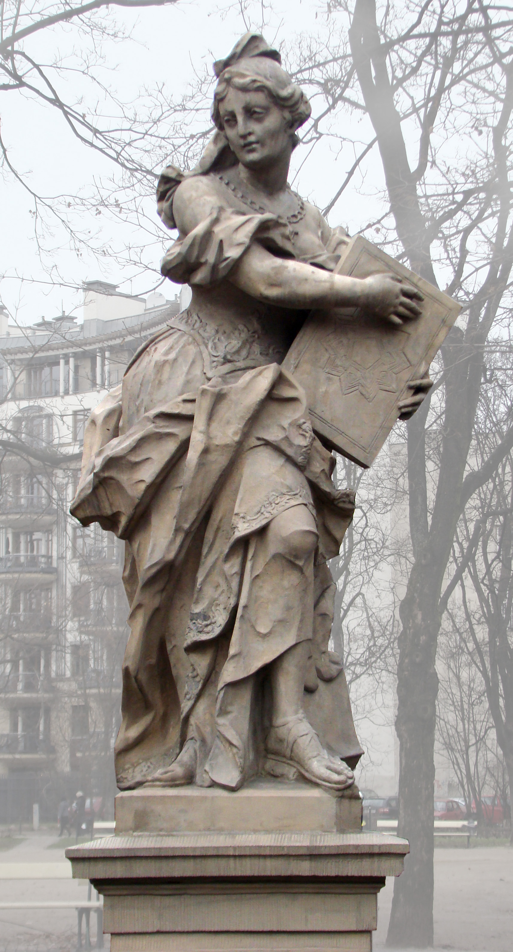 Military architecture - sculpture by Jan Jerzy Plersch